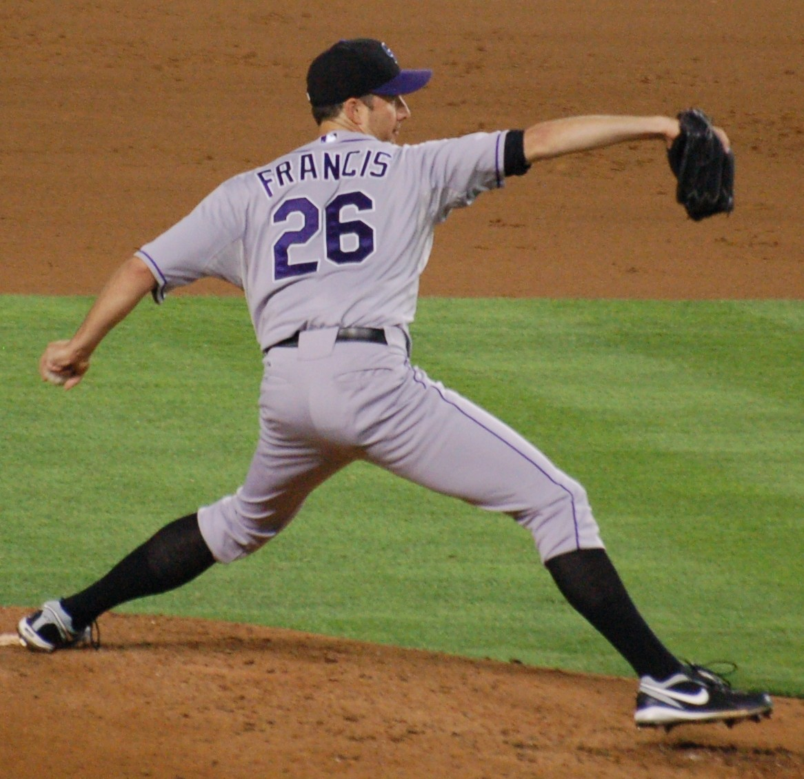 Jeff Francis 2012